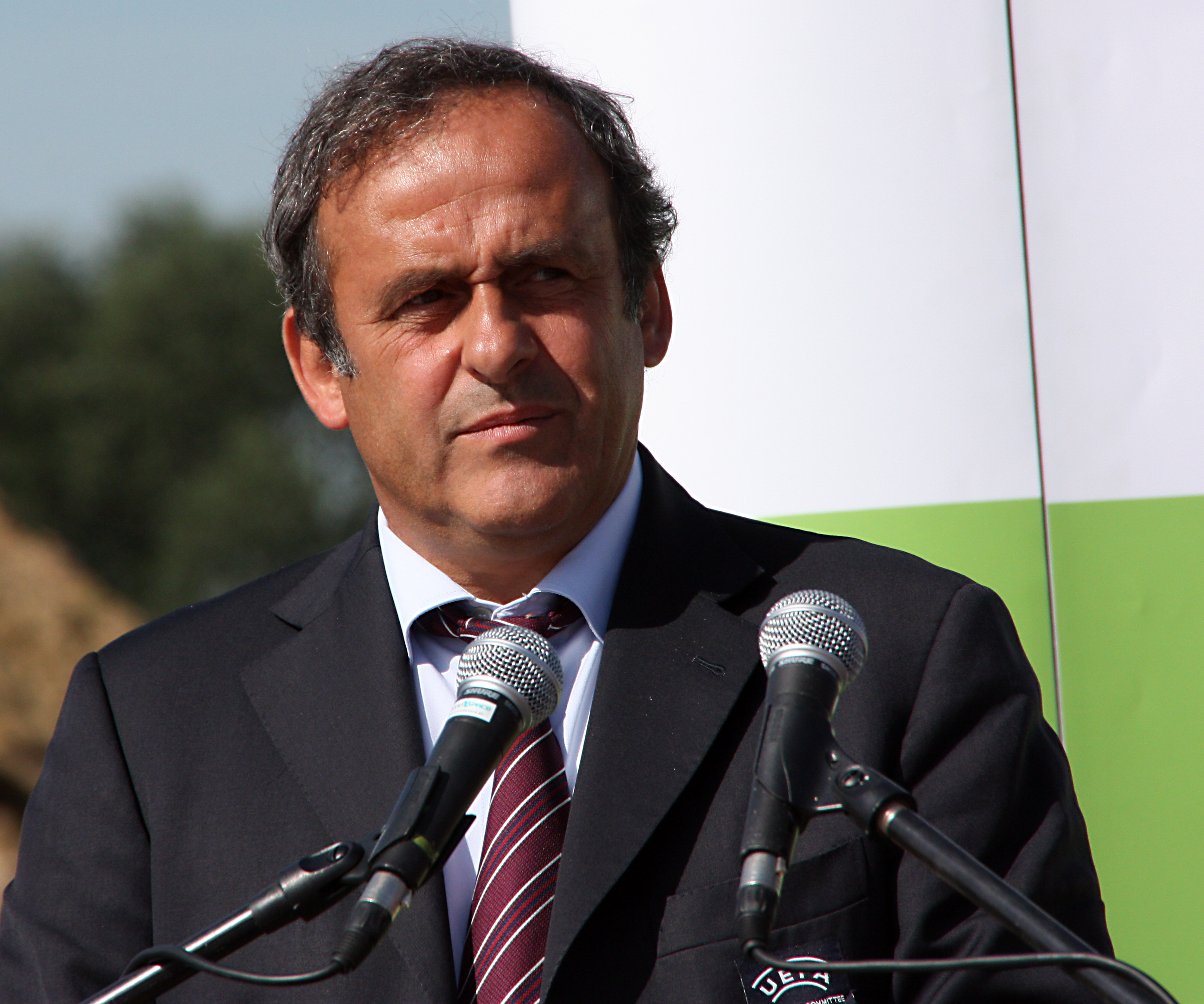 The President of UEFA, former internationally known footballer, Michel Platini, visited today on 27.07.2009 the Under-construction new football stadium of Wroclaw, Poland. Platini seemed to be very happy for the progress of works. Michel Platini's visit to Wroclaw